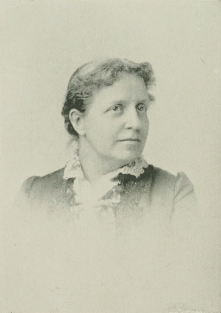 Portrait of American reformer and writer Helen Stuart Campbell (1839-1918). From American Women: Fifteen Hundred Biographies with Over 1,400 Portraits, Frances E. Willard and Mary A. Livermore, editors. Mast, Crowell & Kirkpatrick, 1897 (revised edition from 1893), vol. 1, p. 148